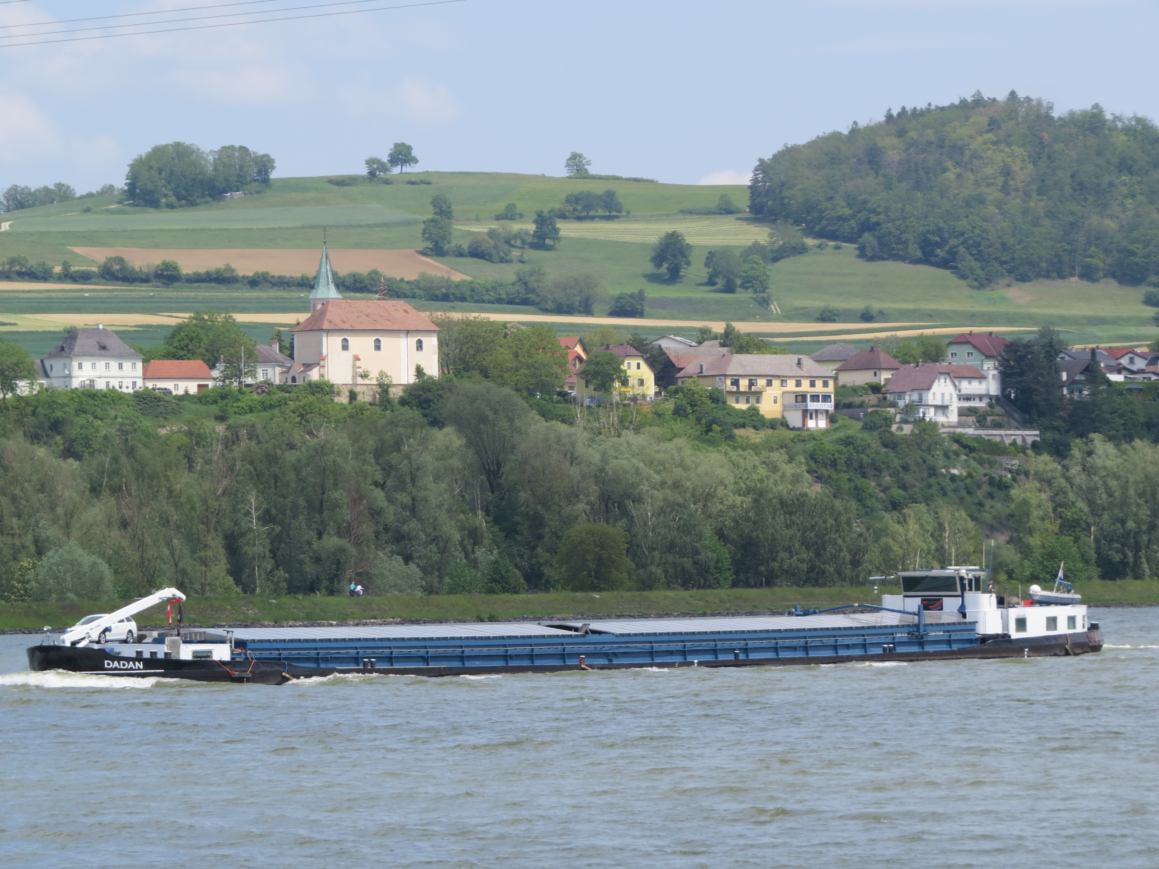 Dadan bevor Pfarrkirche Lehen in Leiben, Austria